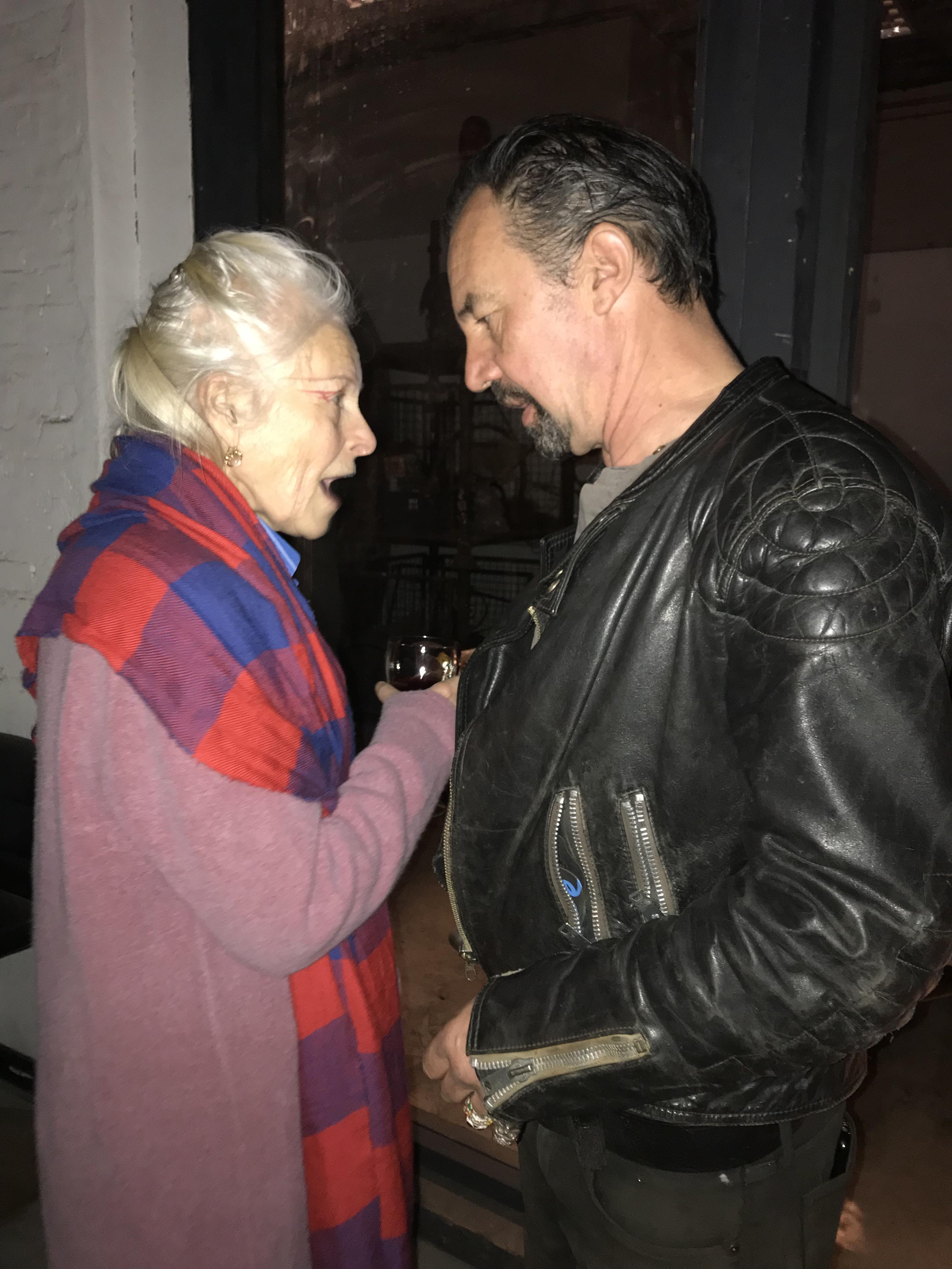 Vivienne and Joe